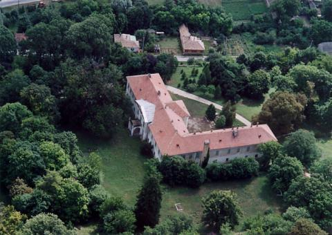 Nágocs, Hungary, aerialphotograpyh (Zichy Mansion)